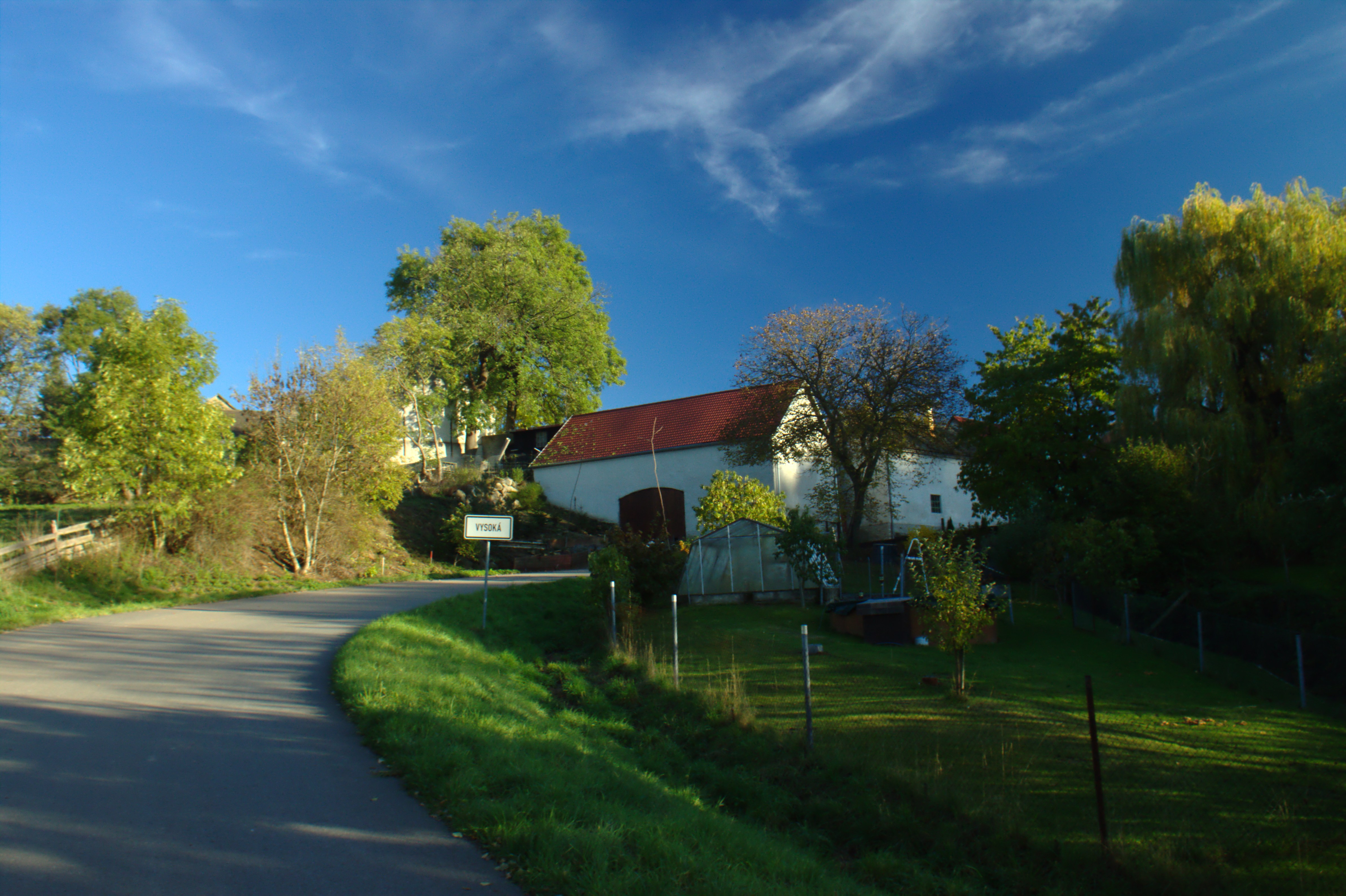 Main road in the village of Vysoká, Central Bohemia, CZ